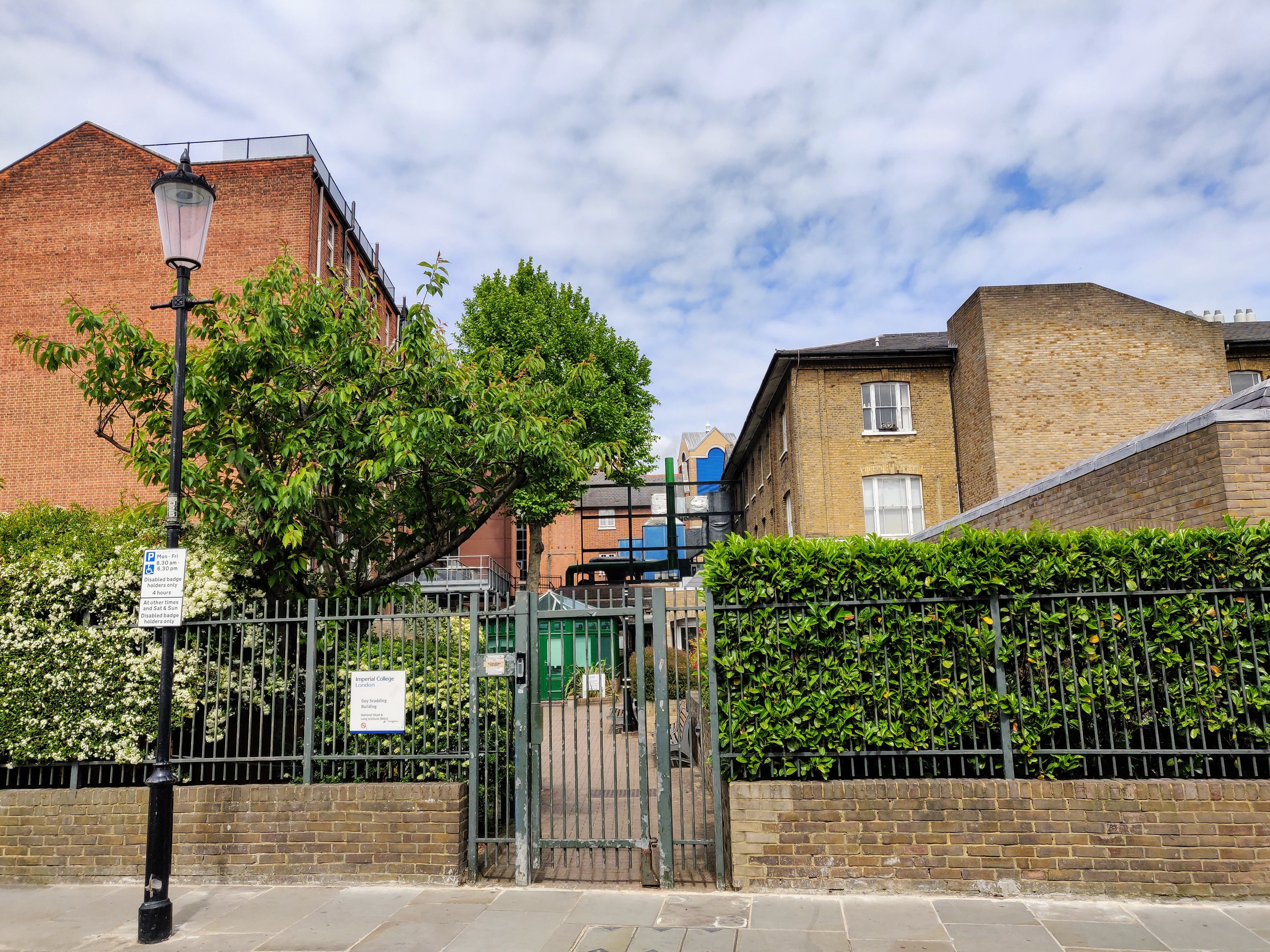 The Guy Scadding Building houses part of the National Heart and Lung Institute, Imperial College London at the Royal Brompton Hospital on Cale Street.